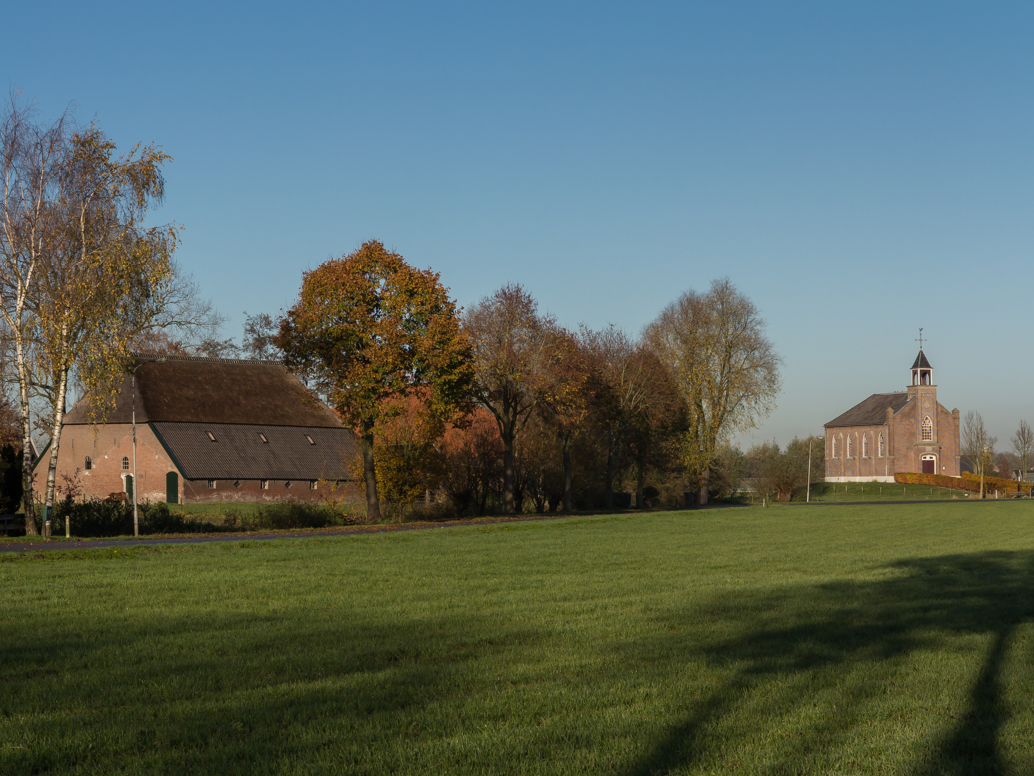 Homoet, reformed church in the street